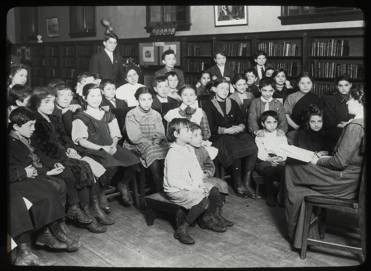 Digital ID: 465270. Work with schools : a librarian's assistant telling a story to a group of Russian children in their native language, ca. 1910s.. ca. 191- Source: New York Public Library Visual Materials / Lantern Slides / Branch Libraries / Extension Division / Public schools and Work with schools ( Repository: The New York Public Library. New York Public Library Archives. See more information about and others at Persistent URL: Rights Info: No known copyright restrictions; may be subject to third party rights (for more information